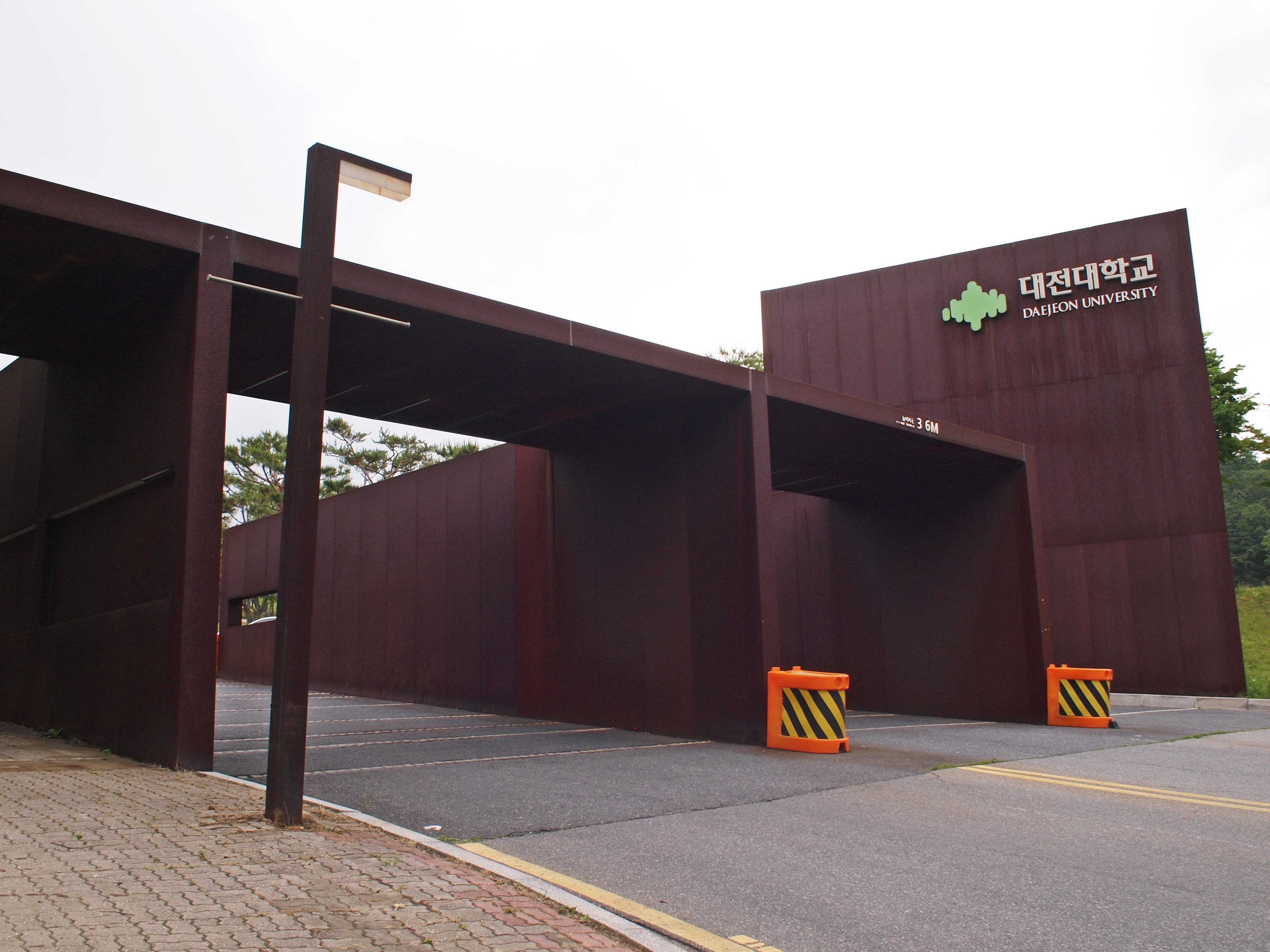 Daejeon University